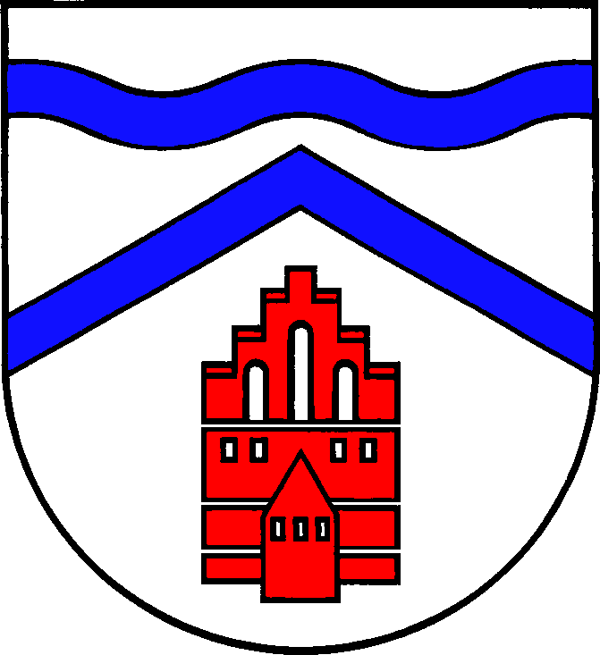 Coat of arms of the municipality Schinkel in Schleswig-Holstein, Germany.